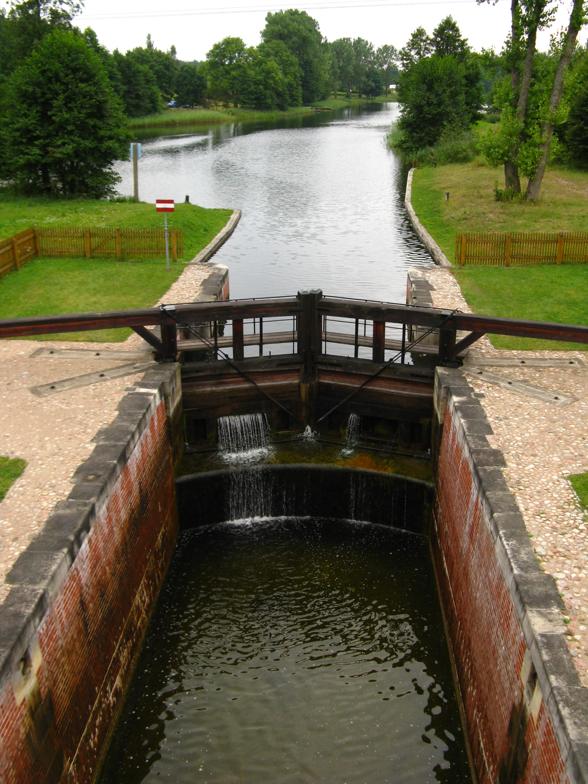 Augustów Canal between Gorczycie lake and Orle lake